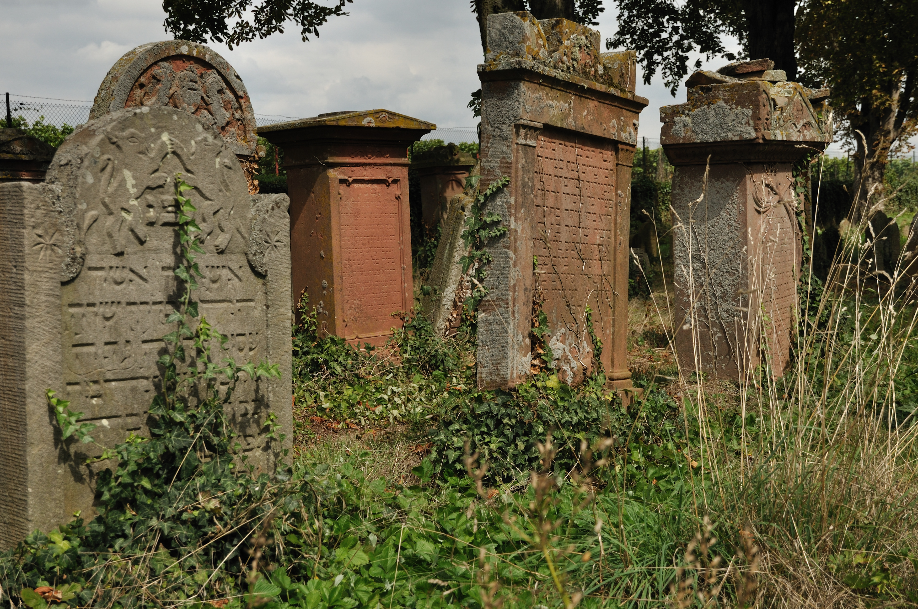 The older jewish cemetery in Essingen, dated 1618